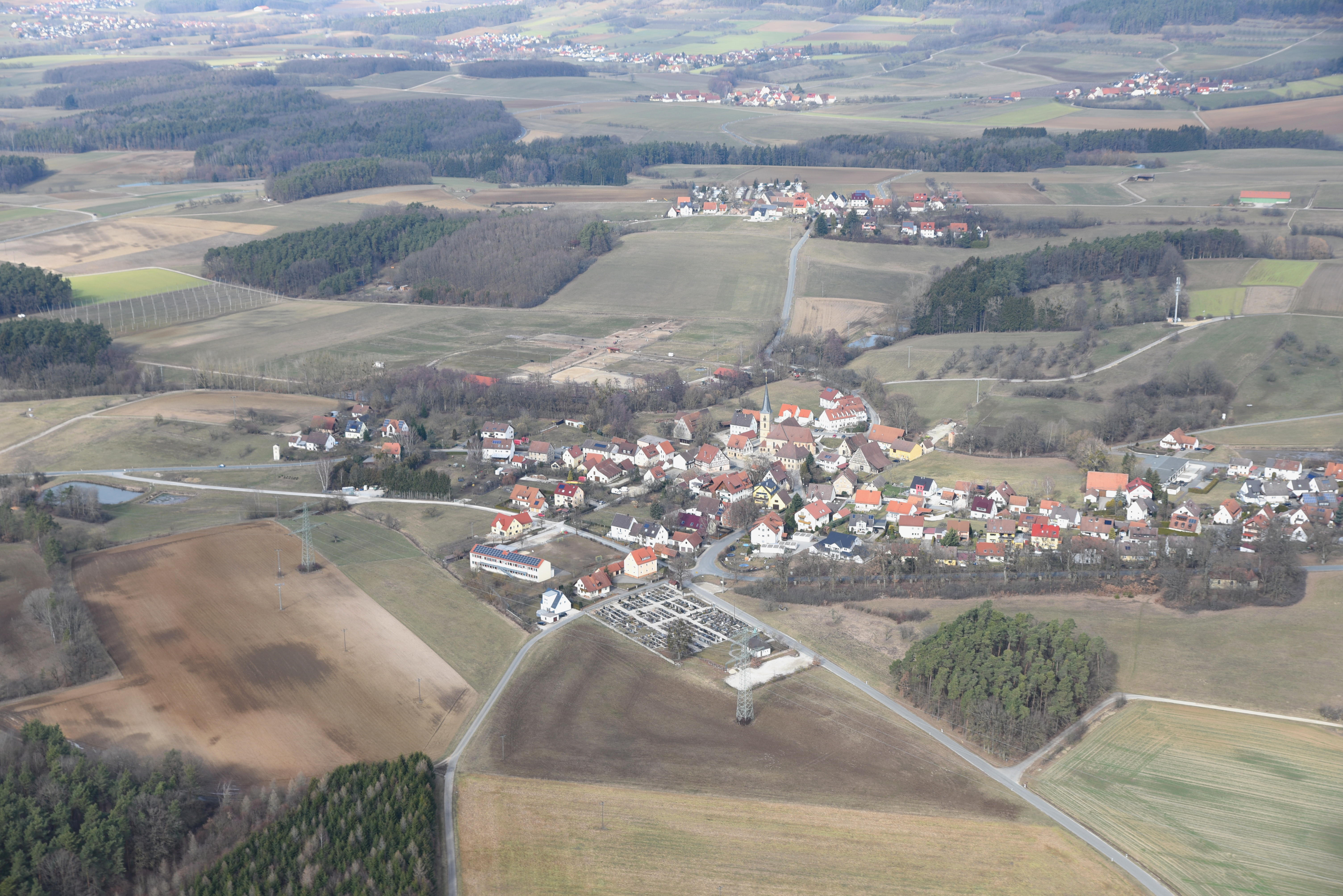 Aerial view of Schnaittach-Kirchröttenbach